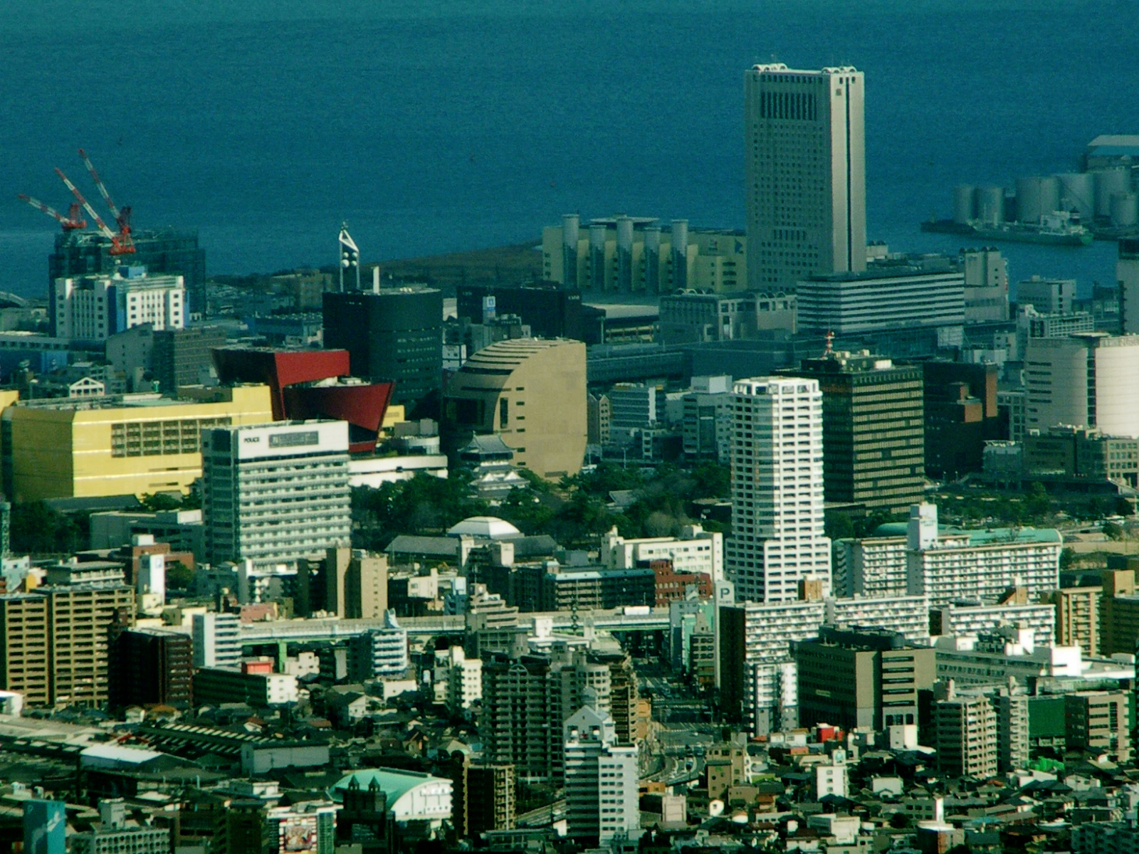 Aerial view of Kokura City; photo taken from Mount Sarakura